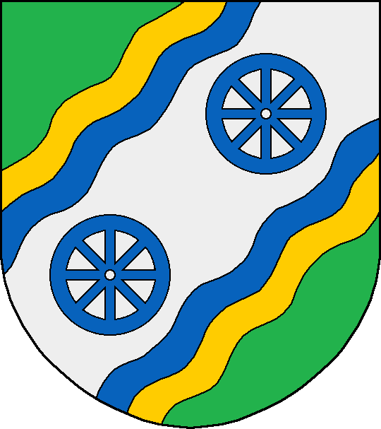 Coat of arms of the municipality Süderfahrenstedt in Schleswig-Holstein, Germany.